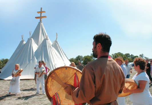 Hungarian Native Faith Ceremony in Hungary, at the Temple of the Seven Images of the Mother of God.